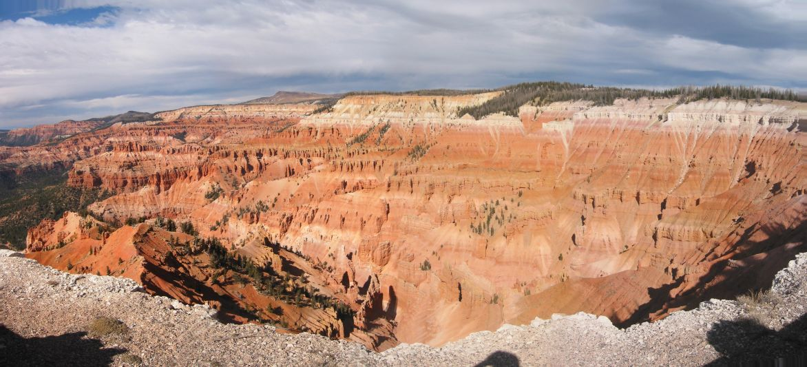 View northeast in Cedar Breaks National Monument, Utah.